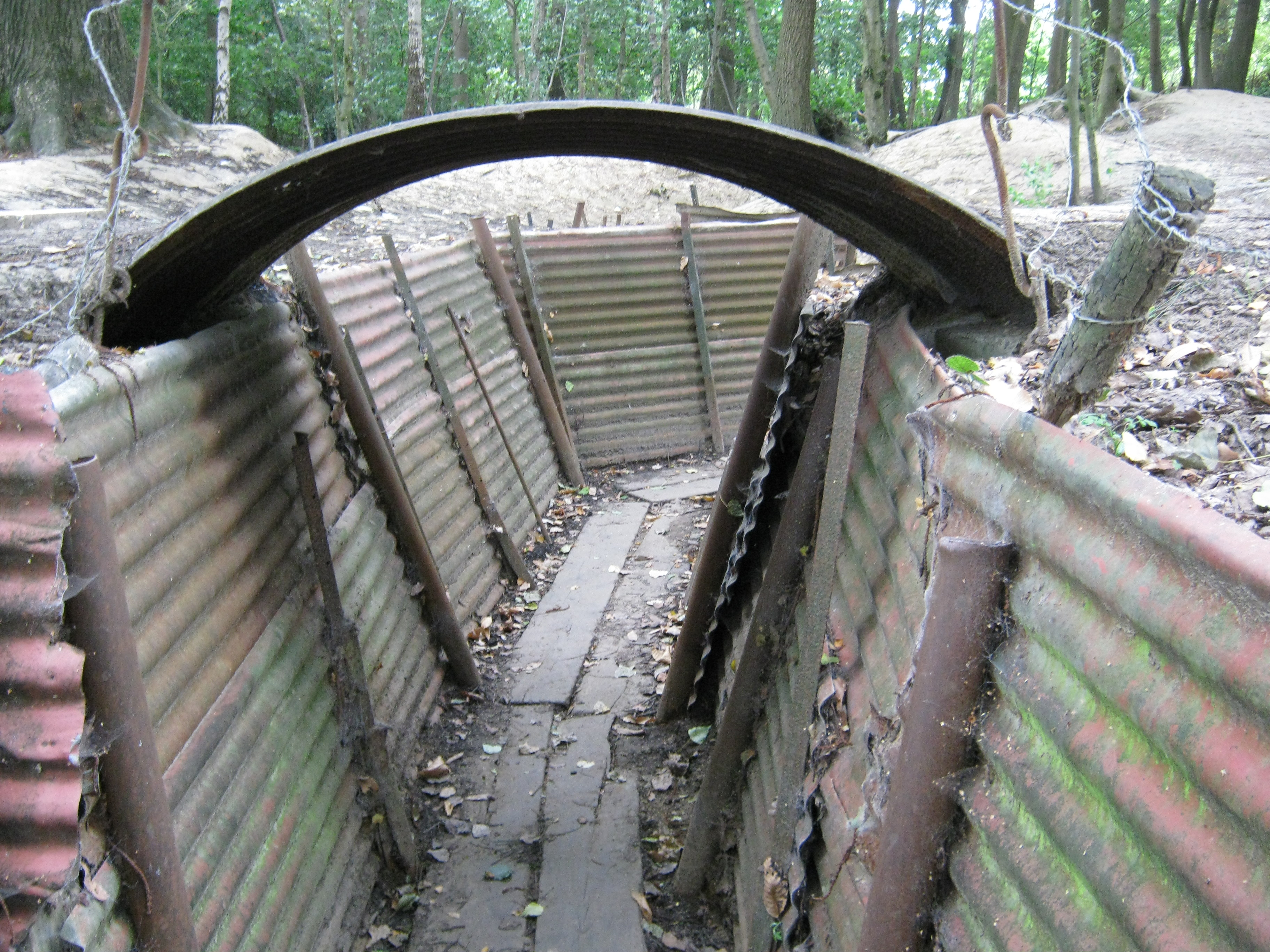 segment of tranches at The Sanctuary Wood Museum on Hill 62, near Zillebeke, Belgium